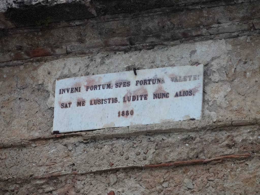 Latin inscription (A.D. 1880) on the arch of Palazzo de Angelis in San Marco di Castellabate: INVENI PORTUM. SPES FORTUNA VALETE! / SAT ME LUSISTIS. LUDITE NUNC ALIOS. / 1880